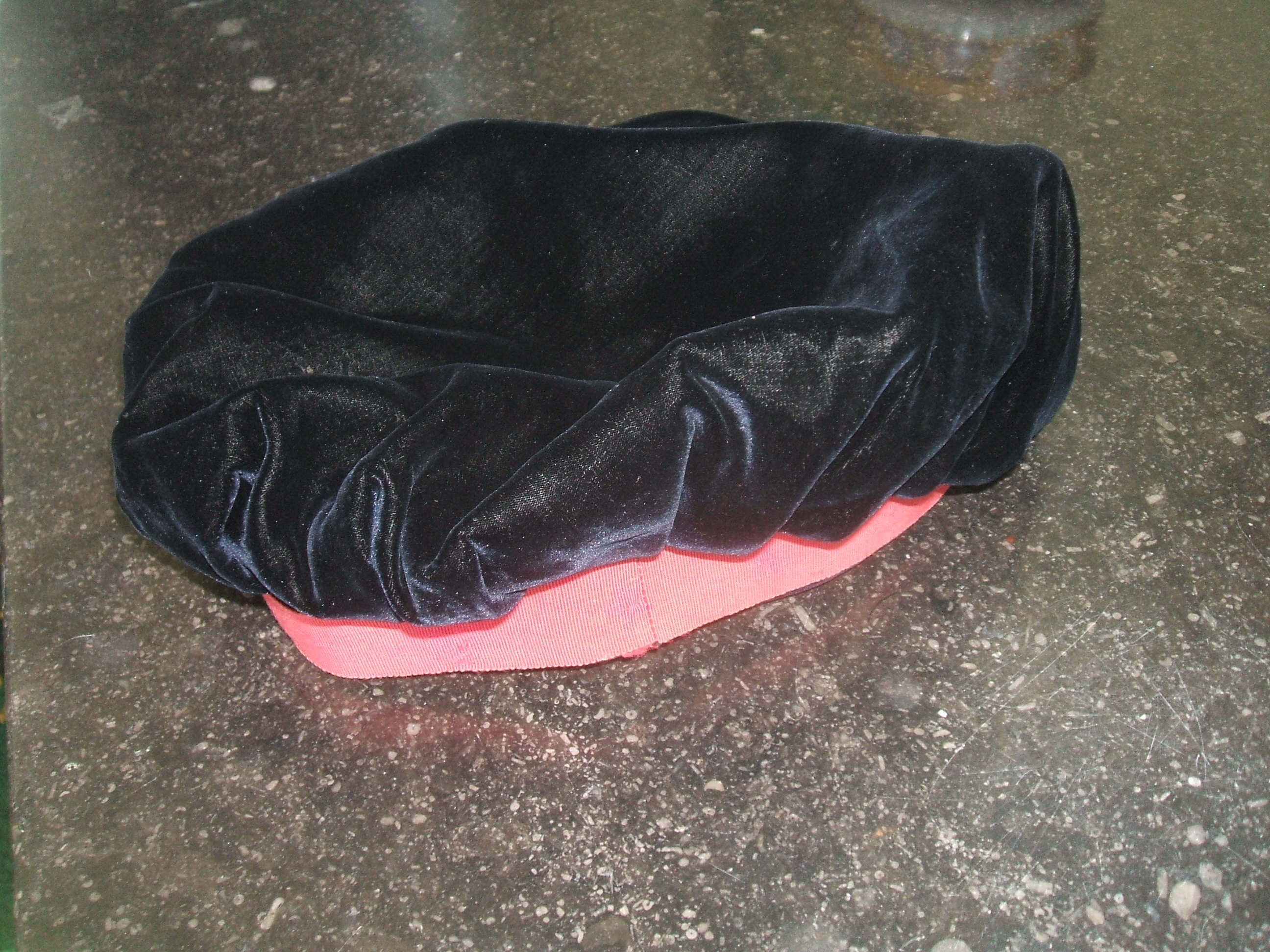 Faluche d'étudiant en médecine des années 50 (faculté de Rennes), ayant appartenu au docteur manceau Paul Miniac, (1927-1995). Collection Marie-Anne Miniac, Rennes, France.